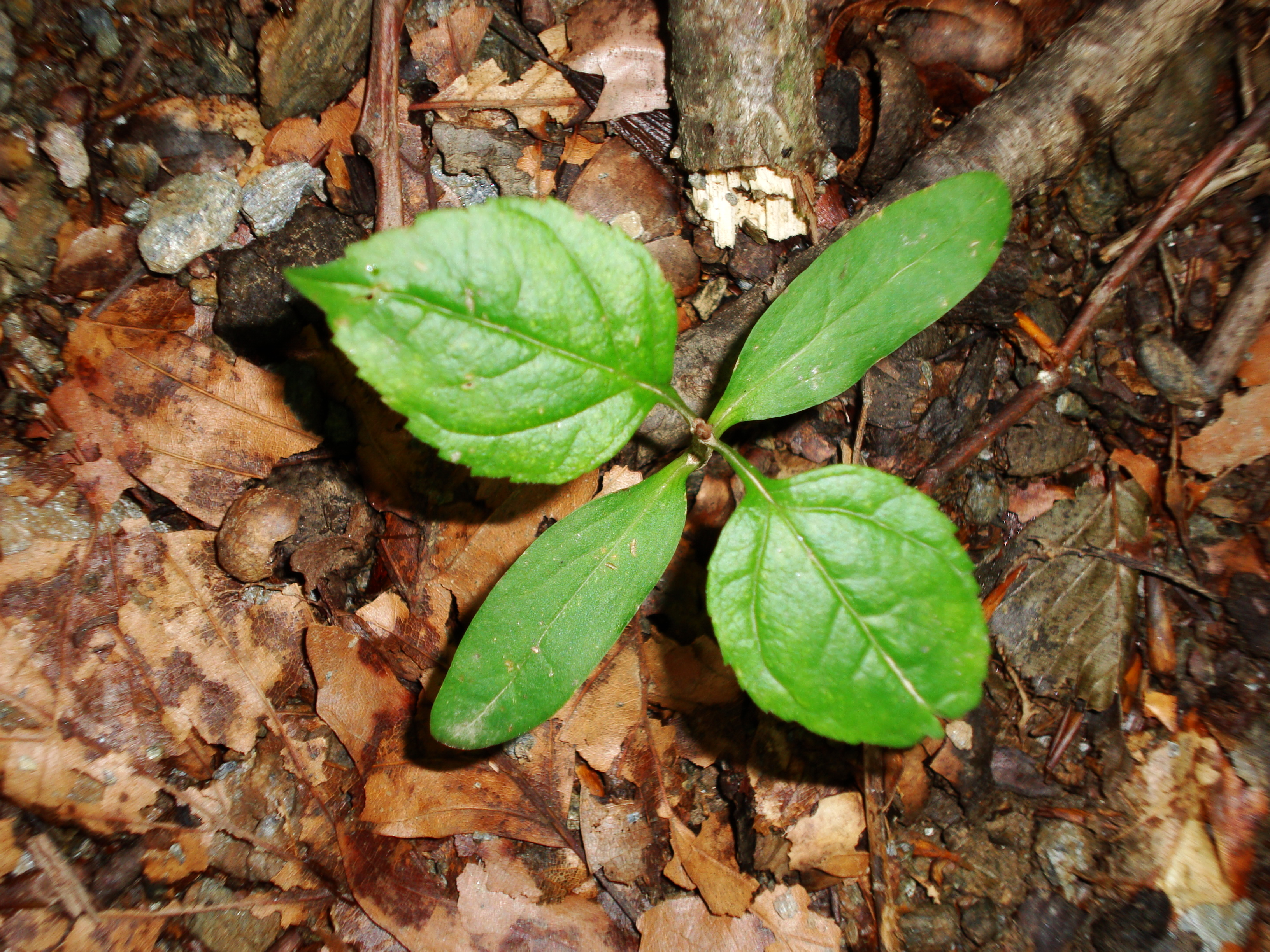 Seedling of Fraxinus excelsior, approx. 1 month old